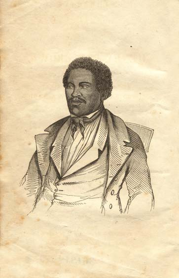 Frontispiece of the Narrative of Henry Box Brown Who Escaped From Slavery, Enclosed In A Box Three Feet Long, Two Wide and Two And A Half High. Written From A Statement of Facts Made By Himself With Remarks Upon The Remedy For Slavery By Charles Stearns